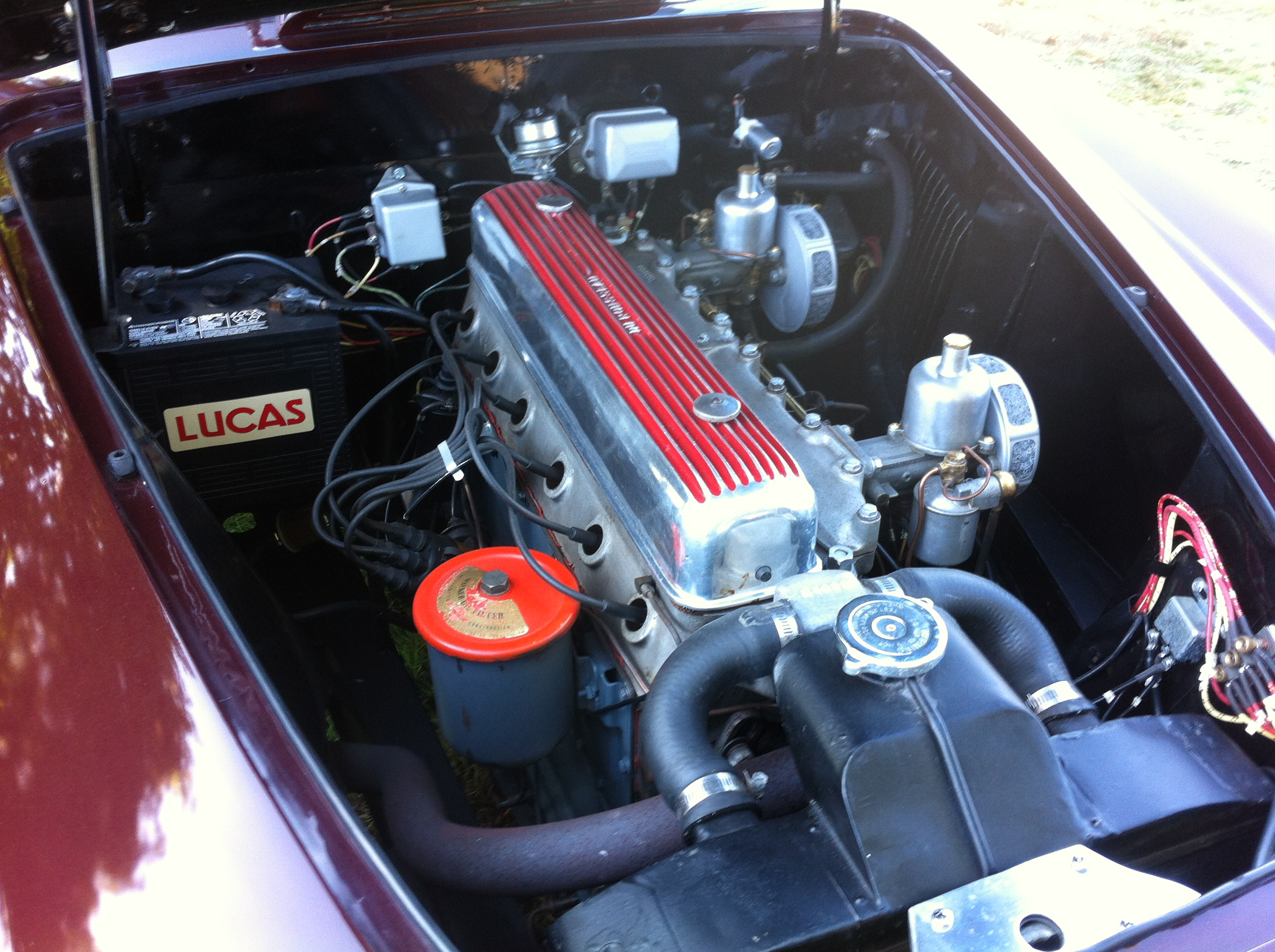 1953 Nash-Healey coupe - view of the engine bay with the "Le-Mans Dual Jetfire Ambassador Six". Picture taken on the show field of the Antique Automobile Club of America (AACA) 2012 Hershey meet that is held every October in Pennsylvania.